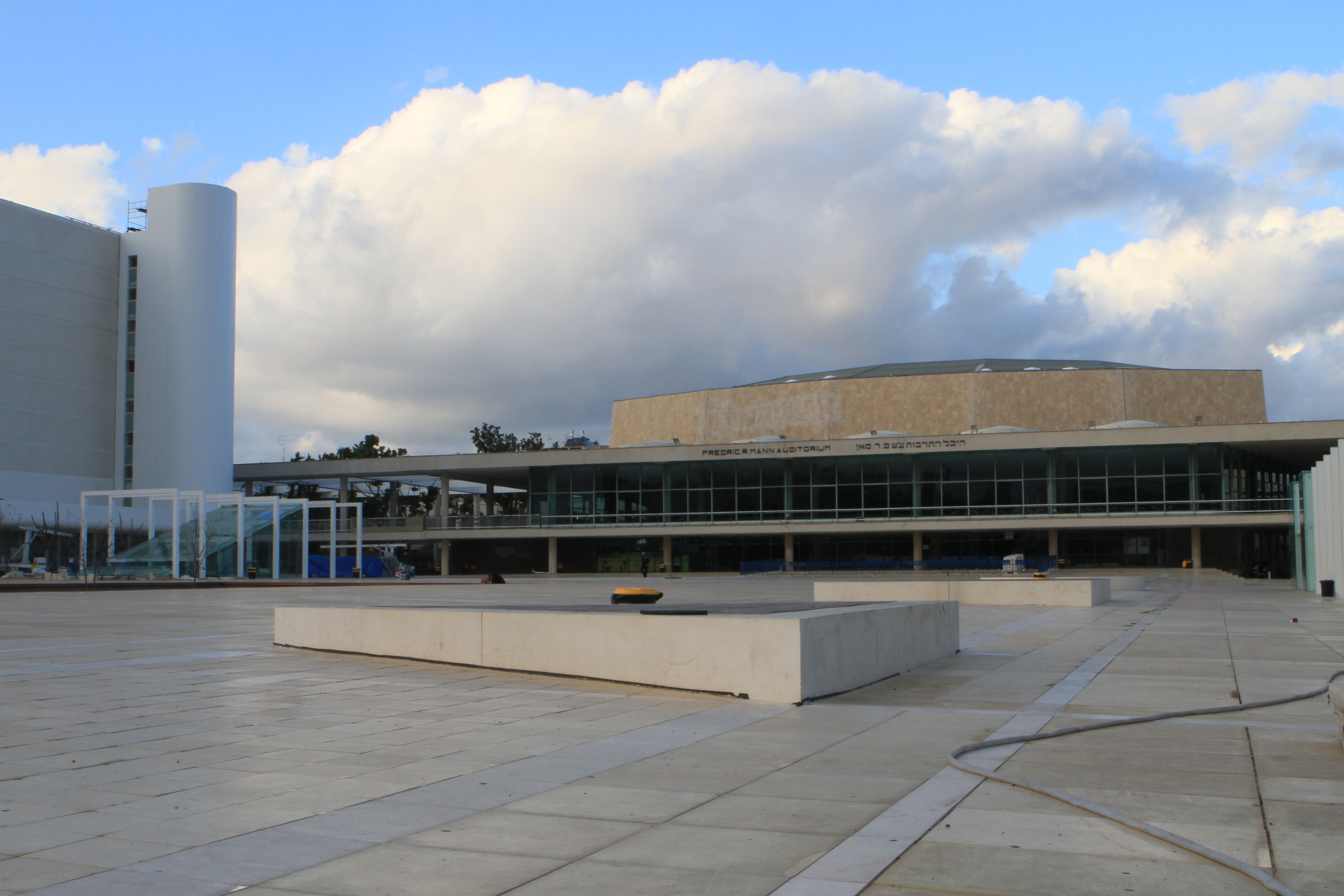 Audytorium Manna (Heichal Hatarbut)a view from Habima Square